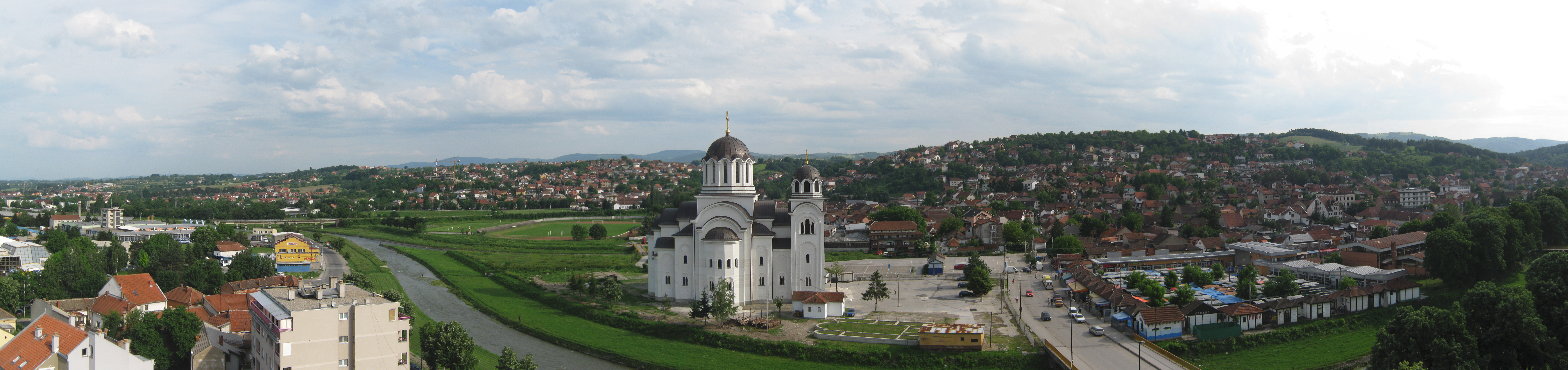 City of Valjevo,panoramic view on Cathedral and uptown part of the city.